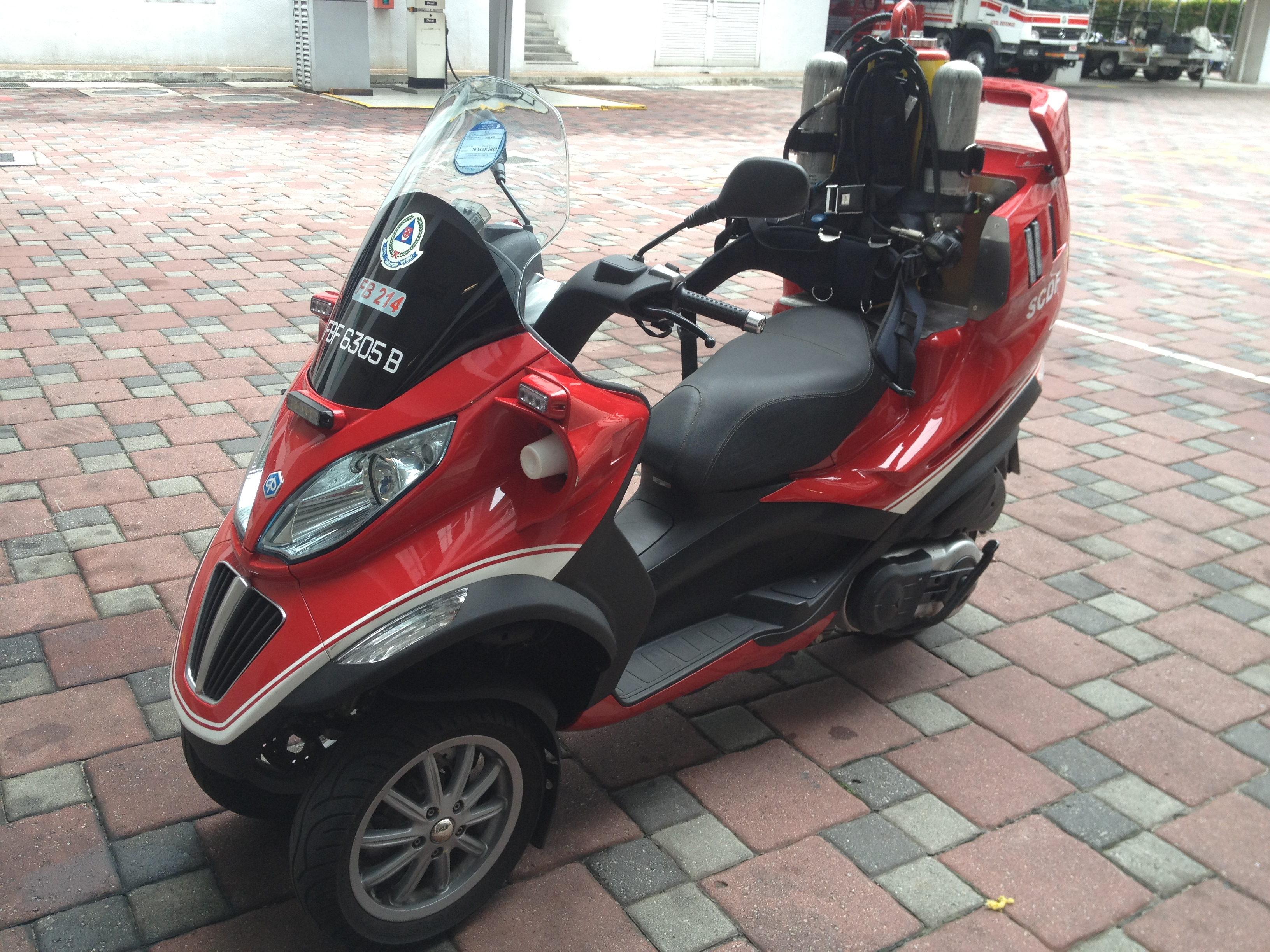 SCDF new fleet of Piaggio MP3 3-wheeler Fire bikes that is able to respond to both Fire as well as medical cases